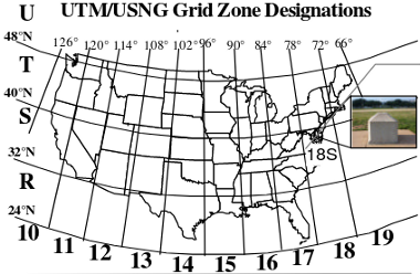 This shows USNG Grid Zone Designations (GZD; the first of 3 parts of a full USNG reference) are laid out across the conterminous United States. Each GZD consists of a number (6-degree longitudinal zone) followed by a letter (8-degree latitude band)